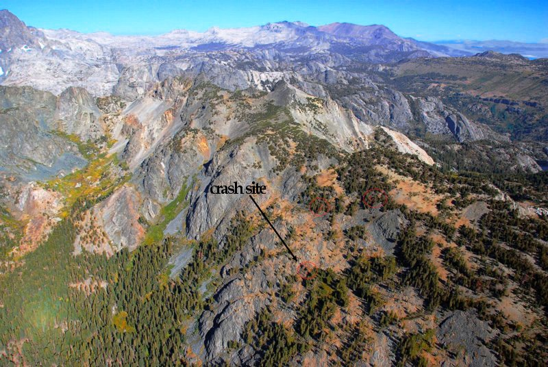 Site of Steve Fossett fatal aircraft crash, confirmed by reference to debris recovery team photo (see my Flickr page for details). Note that the color saturation has been increased with markings added to enhance site visibility. Additional red circles indicate areas with dead trees possibly related to flaming debris, but unconfirmed.